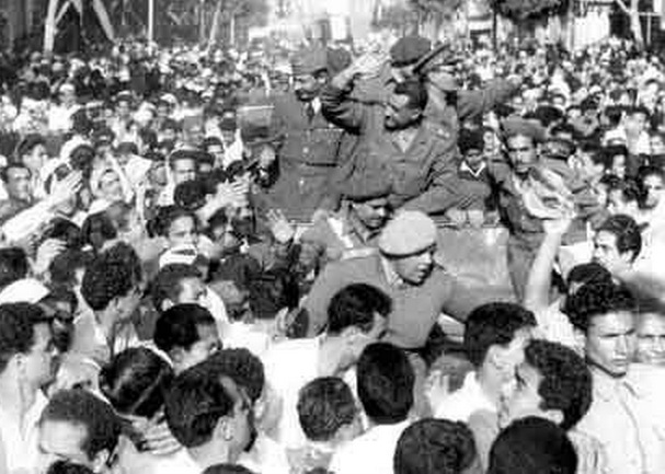 Free Officers being greeted by crowds, 1 January 1953